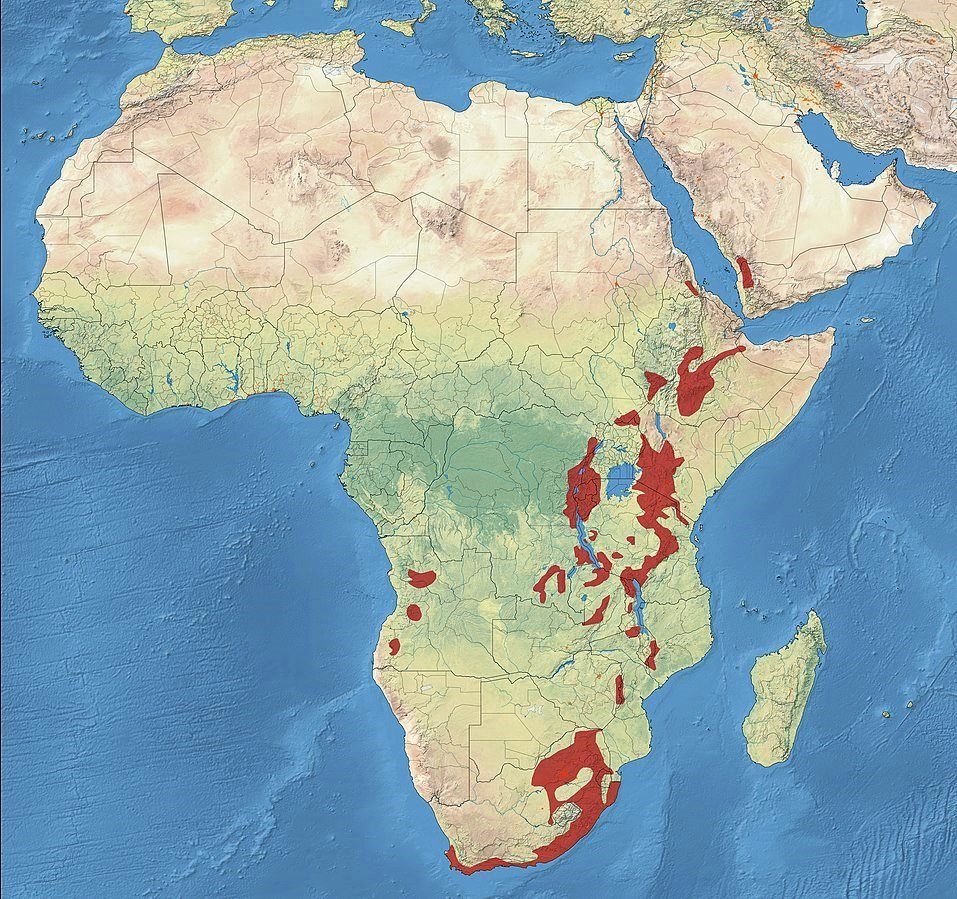 The IUCN Distribution of Maroon = Resident Purple = Breeding Orange = Non-breeding Hatched = Passage Grey = Possibly Extinct Blue = Introduced